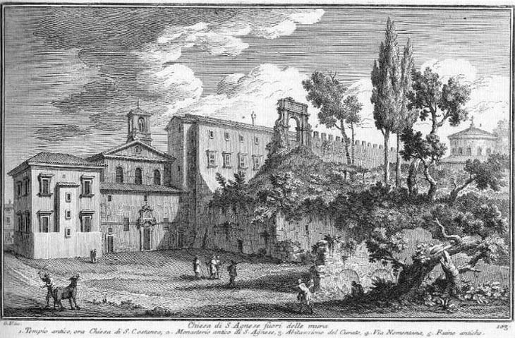 1) old temple now S. Costanza; 2) Monastero di S. Agnese; 3) house of the parish priest; 4) Via Nomentana; 5) ancient walls.